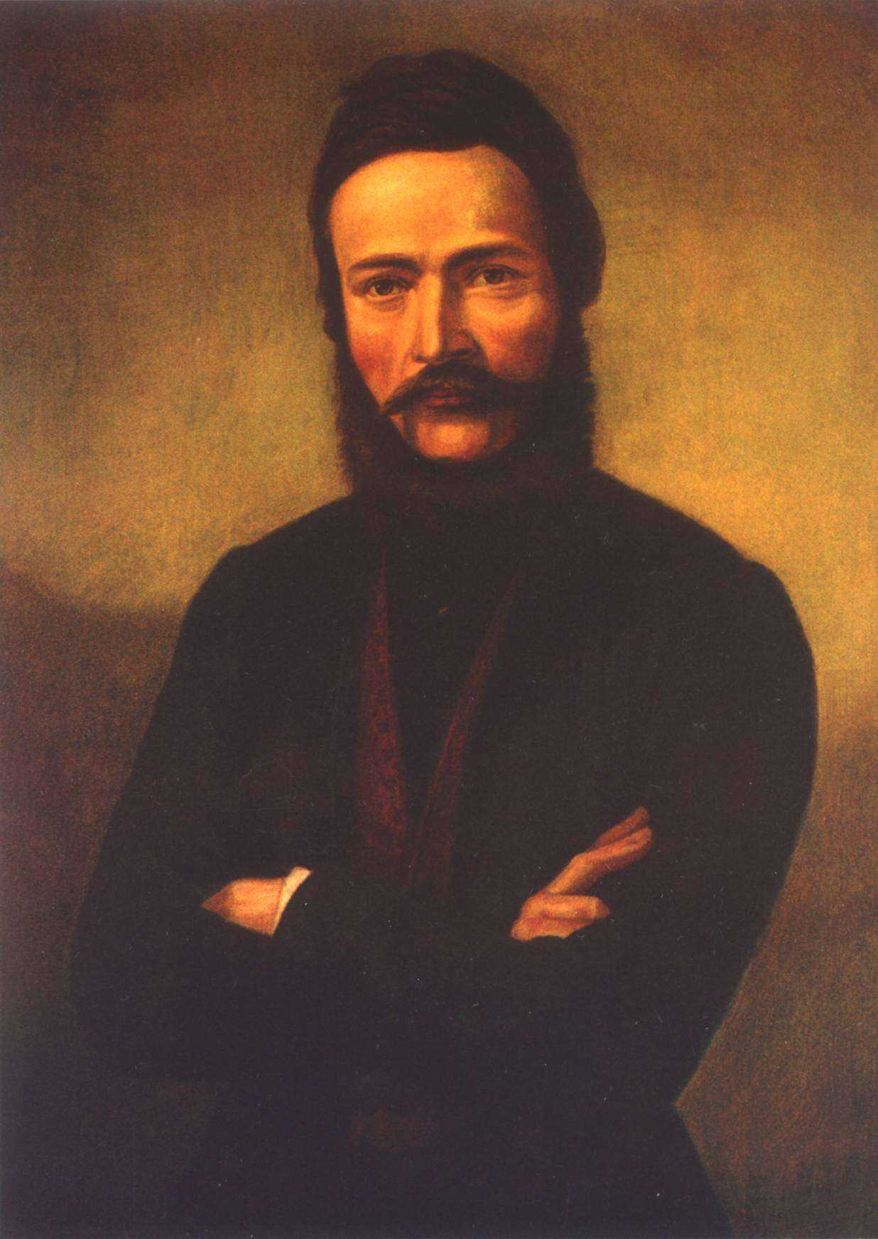 Portrait of Ľudovít Štúr